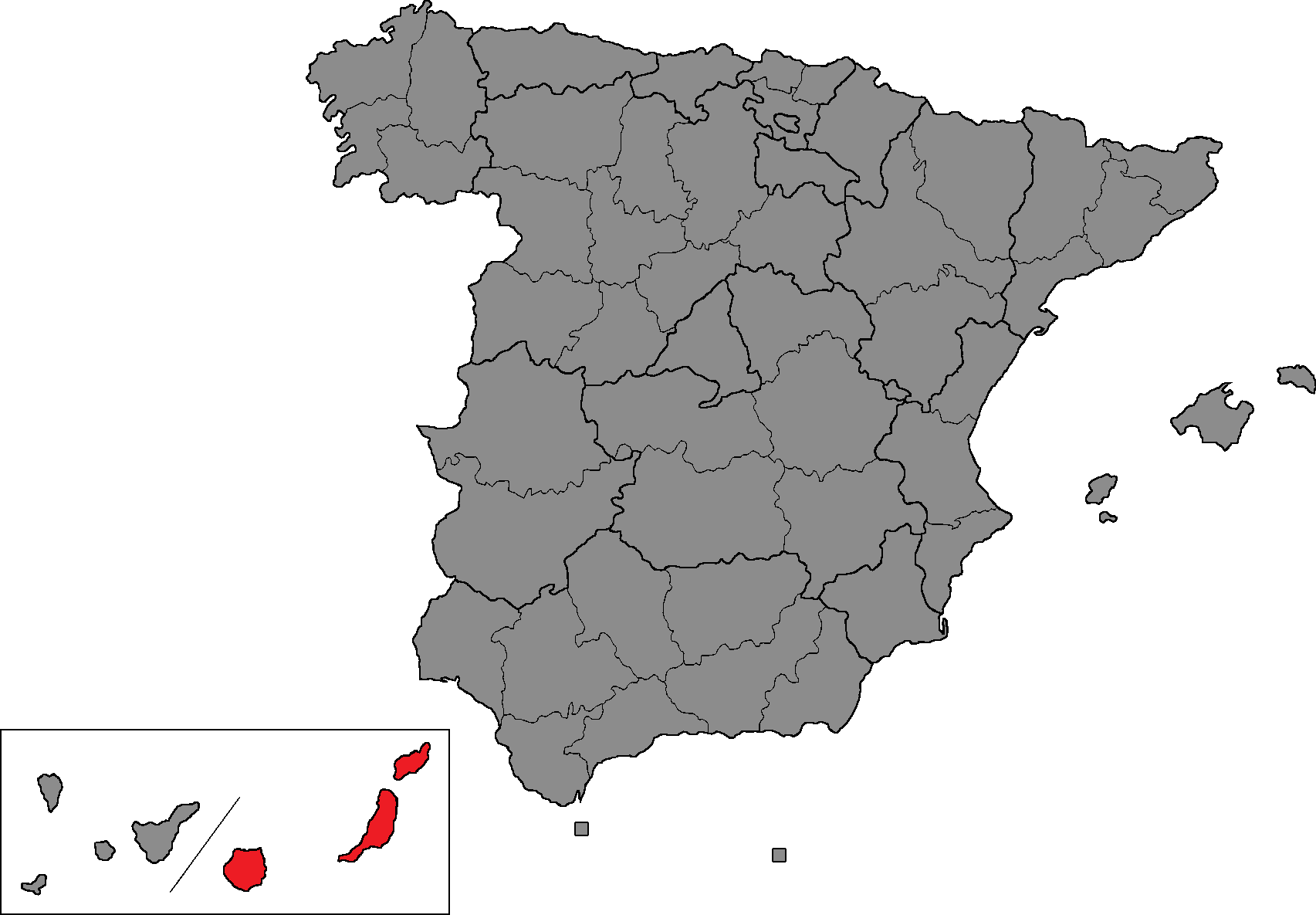 Spanish Congress of Deputies district of Las Palmas.